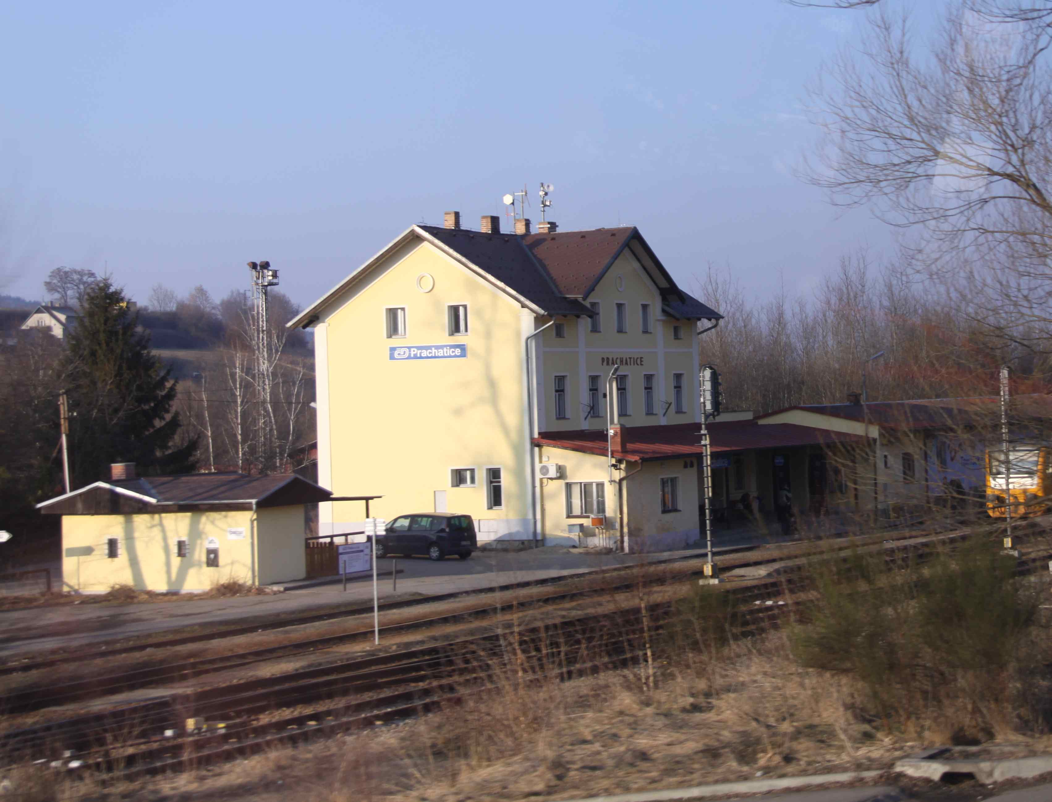 Bahnhof Prachatice